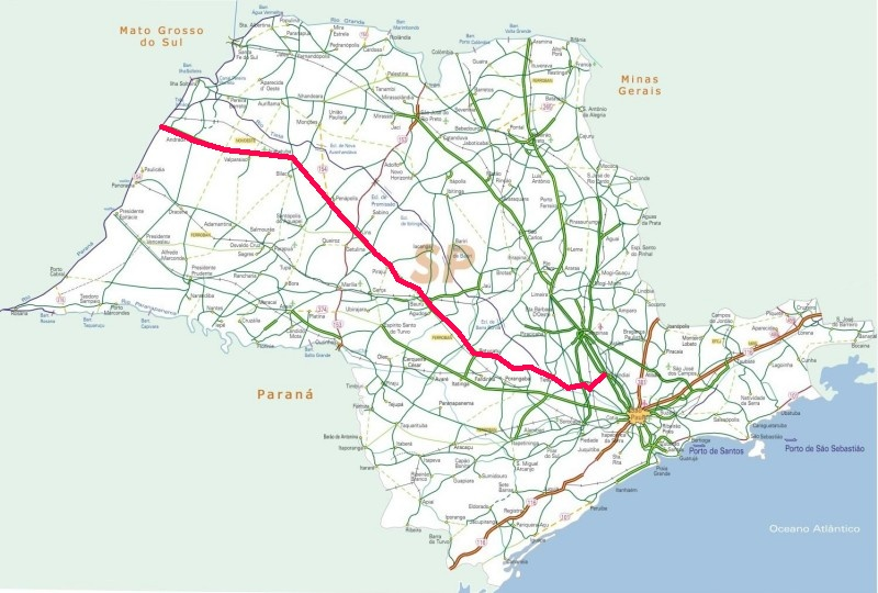 Map of Rodovia Marechal Rondon, a highway in the state of São Paulo, Brazil, drawn on a public domain map by the Ministry of Transportation, Brazil.